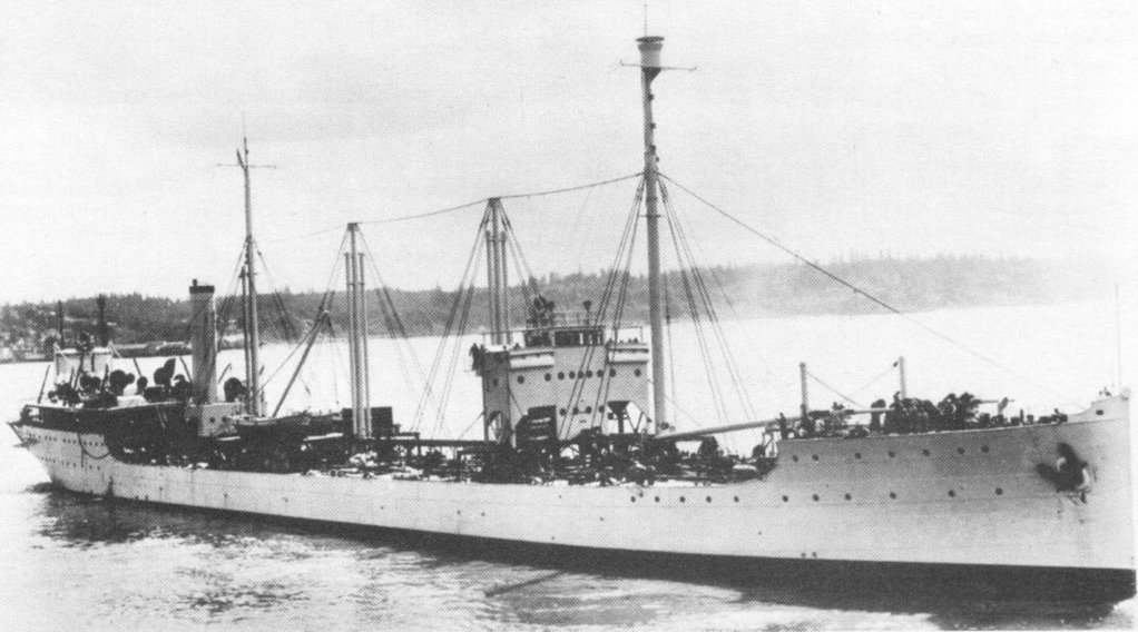 Kanawha (AO-1) underway, date and place unknown.